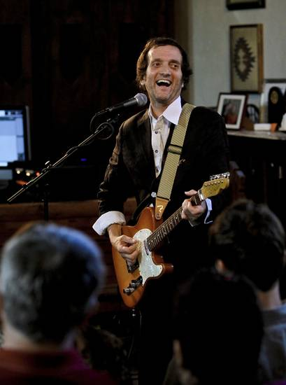 Tyson Meade performing live at Chouse in Norman, OK on June 20th, 2012.